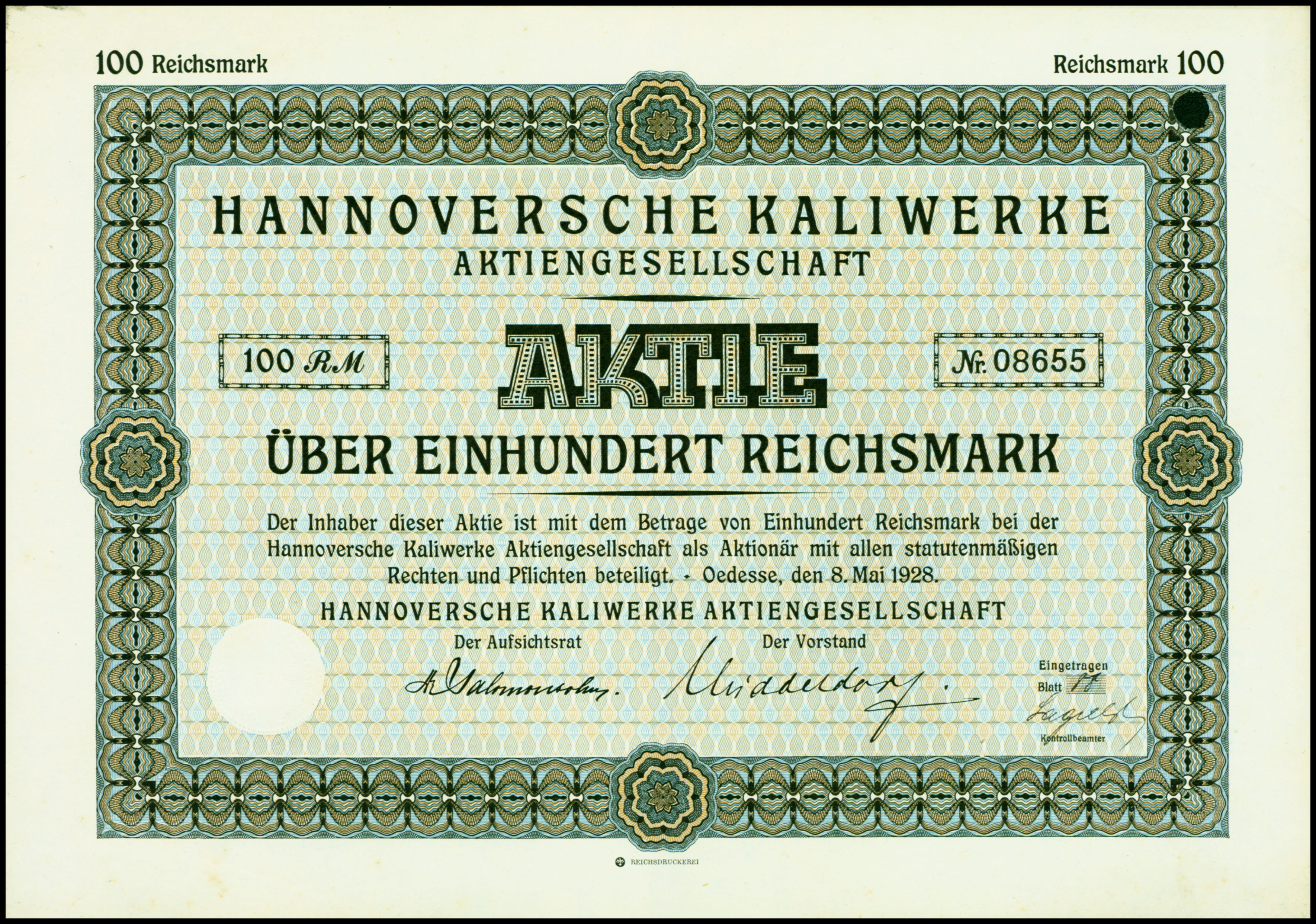 Share of the Hannoversche Kaliwerke AG, issued 8. May 1928